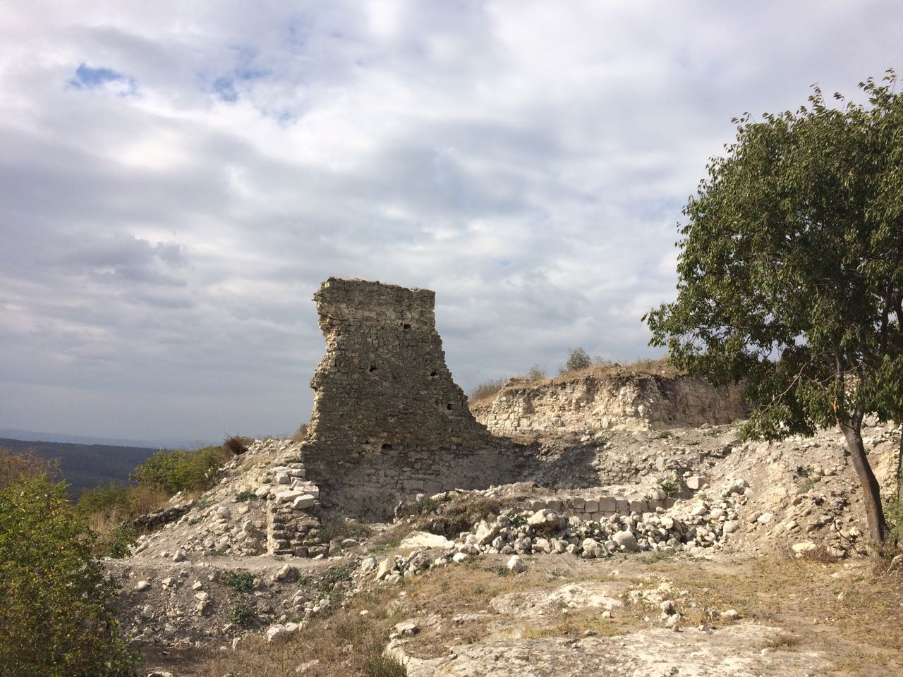 Petrich Kale